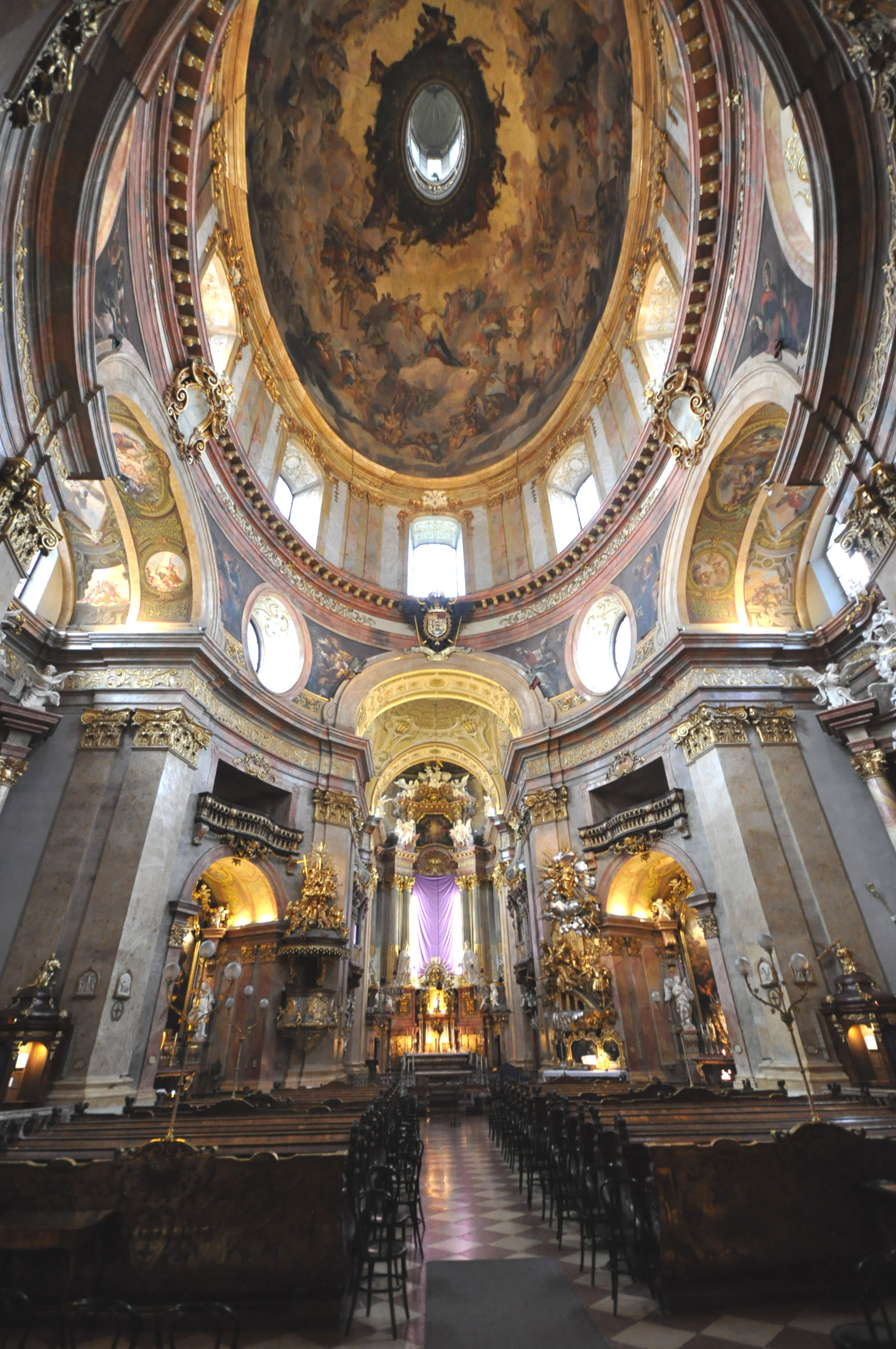 The Baroque high altar was created by Antonio Galli Bibiena and his Bolognese workshop (construction) and Martino Altomonte (1657-1745) (altarpiece). The altarpiece portrays the Healing of the Lame by St. Peter and St. John in Jerusalem. The same artist also painted the altarpiece in the side chapel of the Holy Family. The small painting of the Immaculate Conception above the high altar is by the 19th century artist Kupelwieser. The shrines in the side chapels of the Holy Family and St. Michael contain martyrs from Roman catacombs, donated by Cardinal Kollonitz in 1733. They were put on clothes from this period and placed in the glass coffins. The gilded ornate pulpit is a magnificent sculpture by Matthias Steinl (1726) with on top of the canopy a representation of the Holy Trinity. Opposite the pulpit, there is a dramatic gold-and-silver representation of the Martyrdom of St. John of Nepomuk, sculpted by Lorenzo Mattielli. On top of it is the beautiful statue of The Mother of God.